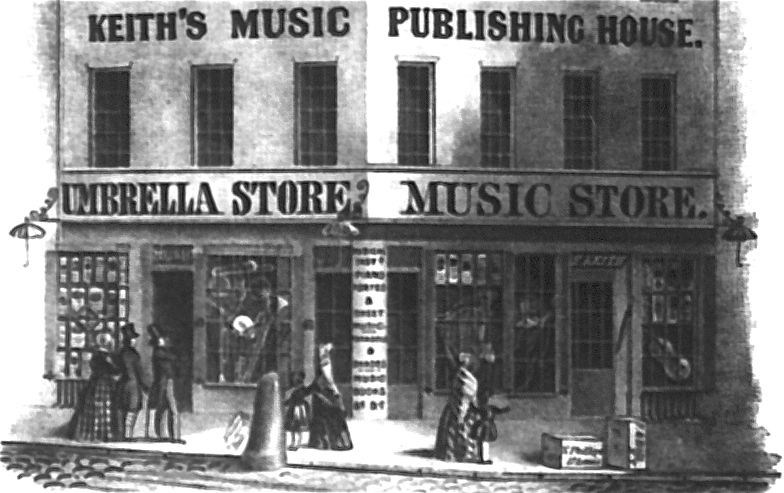 Detail of: Title: Keith's Quick Step, arranged for the piano forte by Joseph W. Turner Date Created/Published: c1845. Medium: 1 print : lithograph. Summary: Music cover showign Keith's Music Publishing House, corner of Court St. and Cornhill, Boston. Reproduction Number: LC-USZ62-86085 (b&w film copy neg.) Repository: Library of Congress Prints and Photographs Division Washington, D.C. 20540 USA Lithograph by E.W. Bouve, Boston.